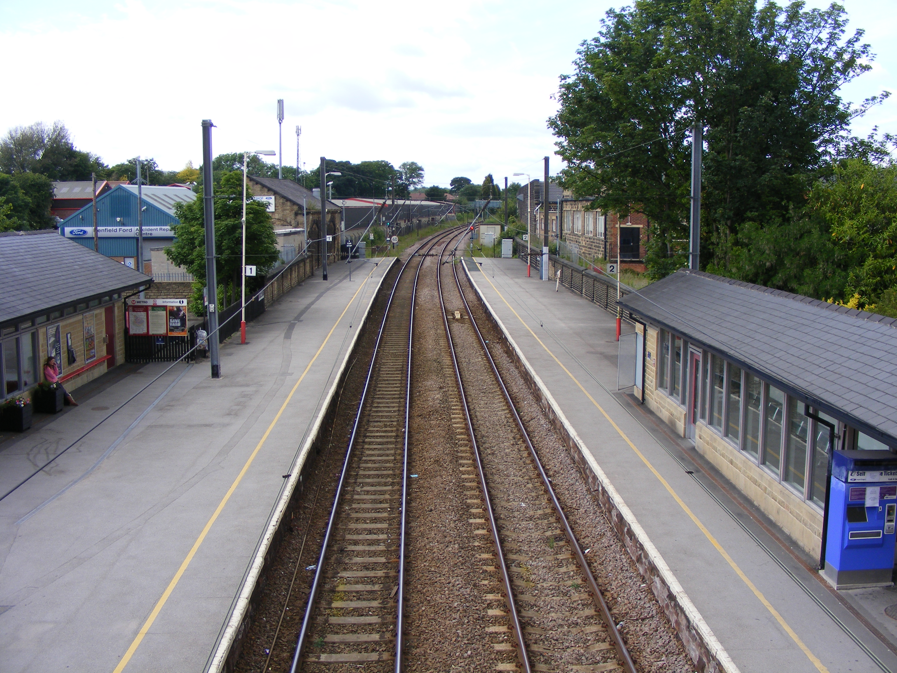 Guiseley railway station near Leeds, West Yorkshire.